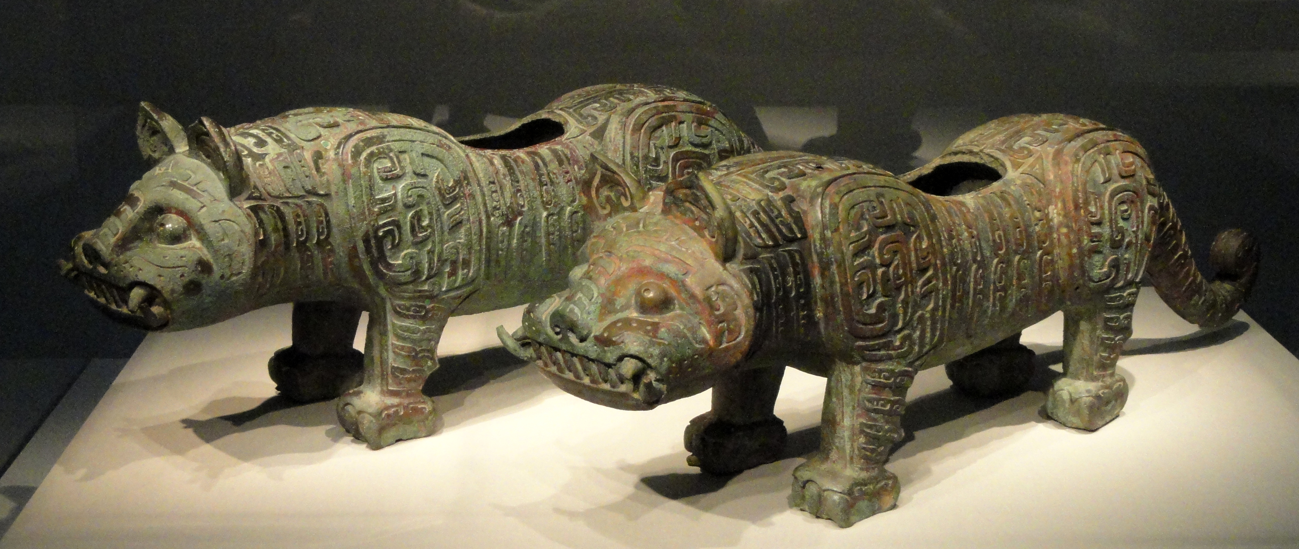 Exhibit in the Freer Gallery of Art, Washington, DC, USA. This artwork is old enough so that it is in the public domain.